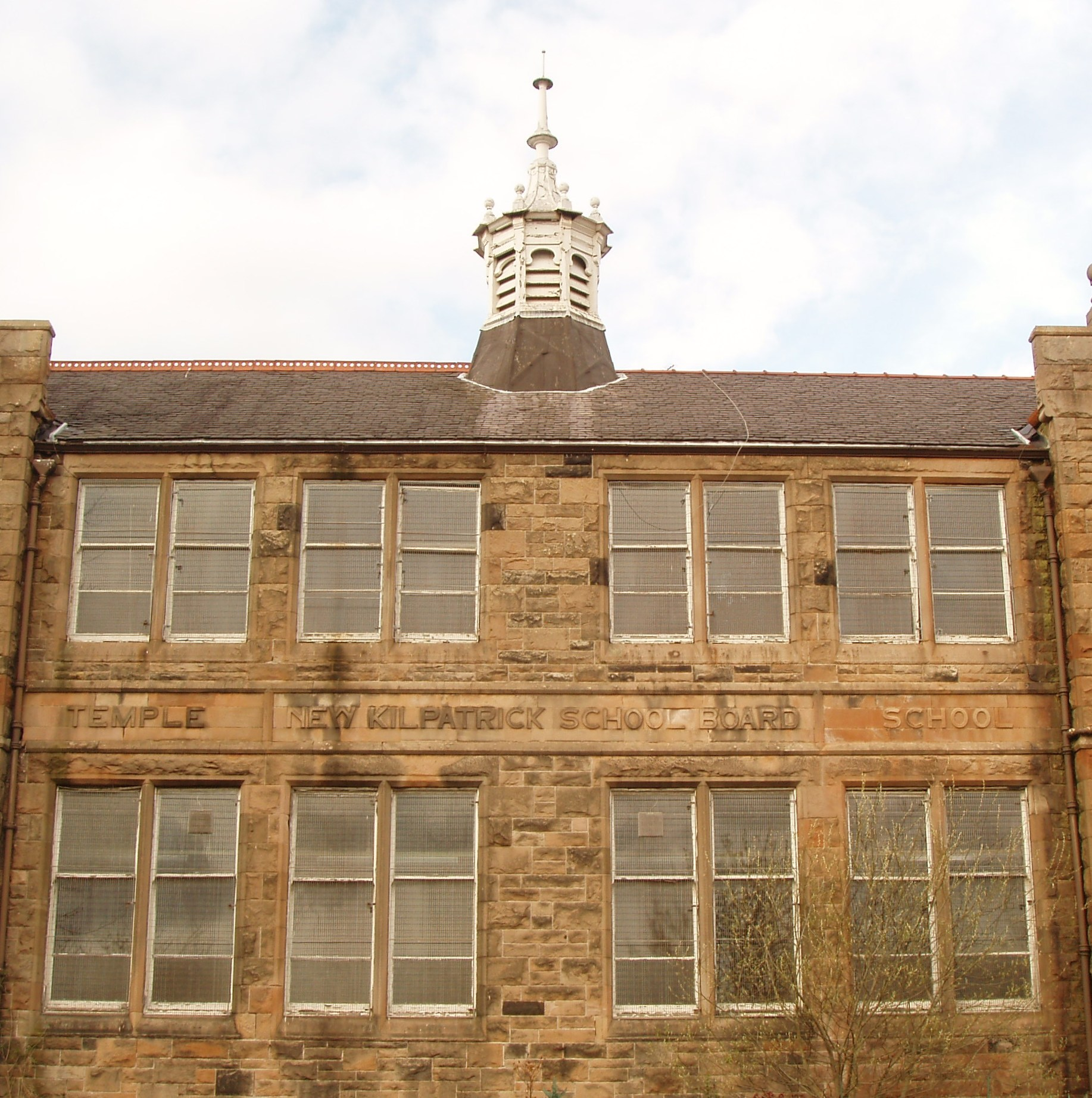 Main wall of Temple Primary School, Glasgow. Built in 1901, by New Kilpatrick School Board, closed in 2007 by Glasgow City Council. Wikiwayman (talk) 08:29, 20 April 2010 (UTC)